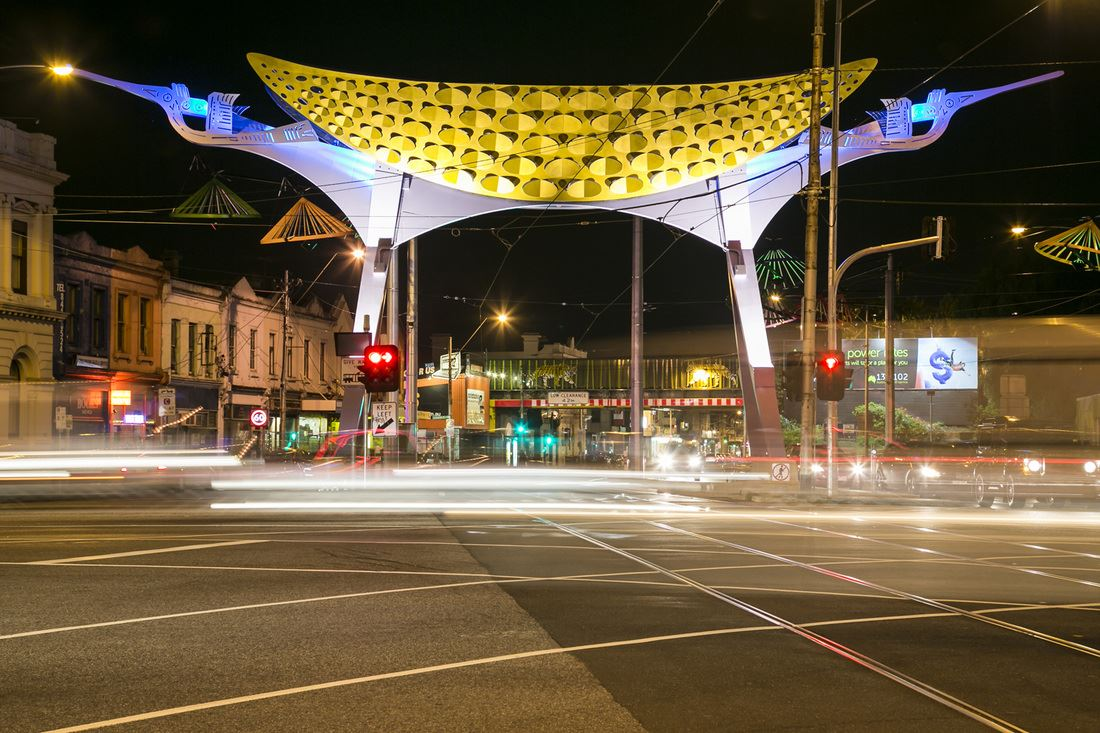 The Victoria Street Gateway, Richmond/Abbotsford, Victoria, Australia